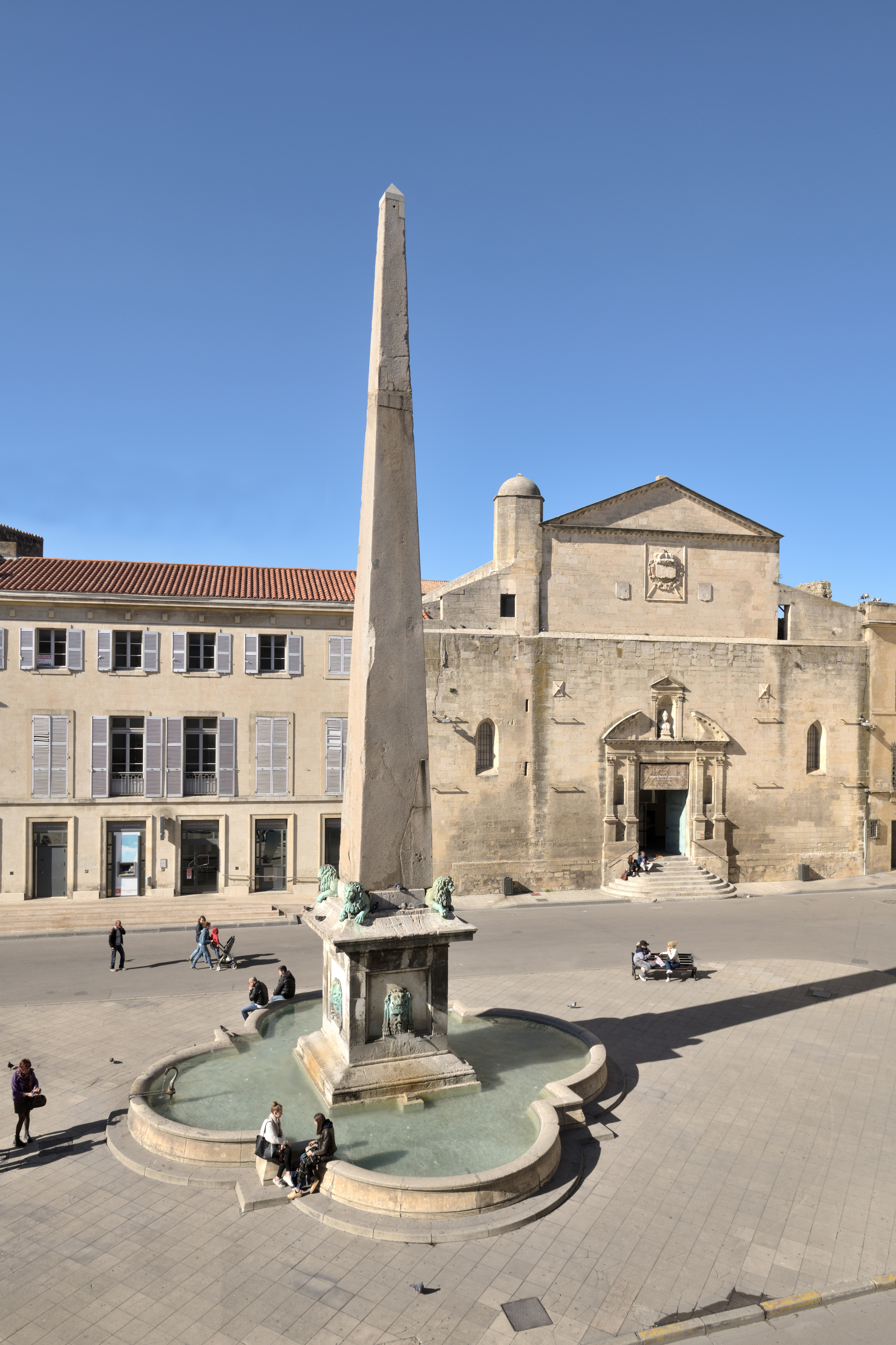 The Obélisque d'Arles and the Église Sainte-Anne on the Place de la Republique.